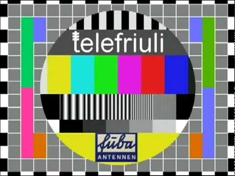 Telefriuli monoscopio